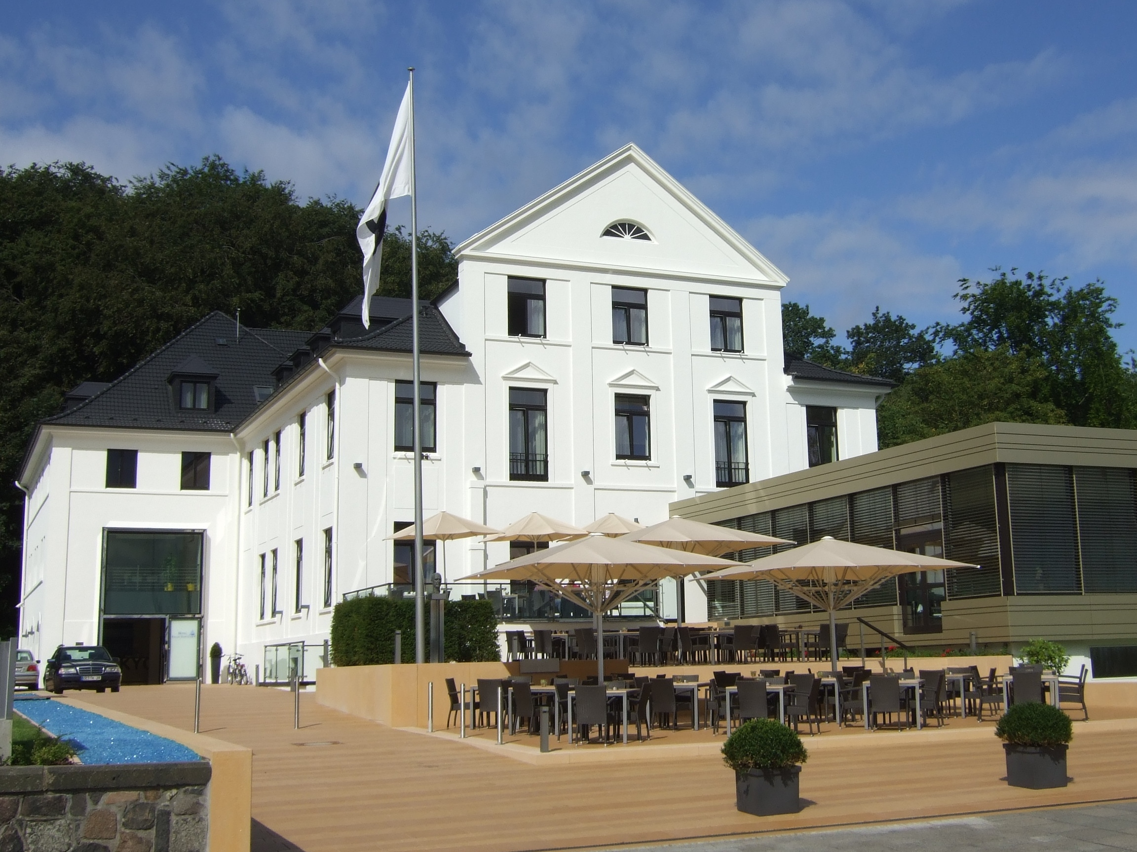 Kieler Yacht-Club, Kiel, Germany